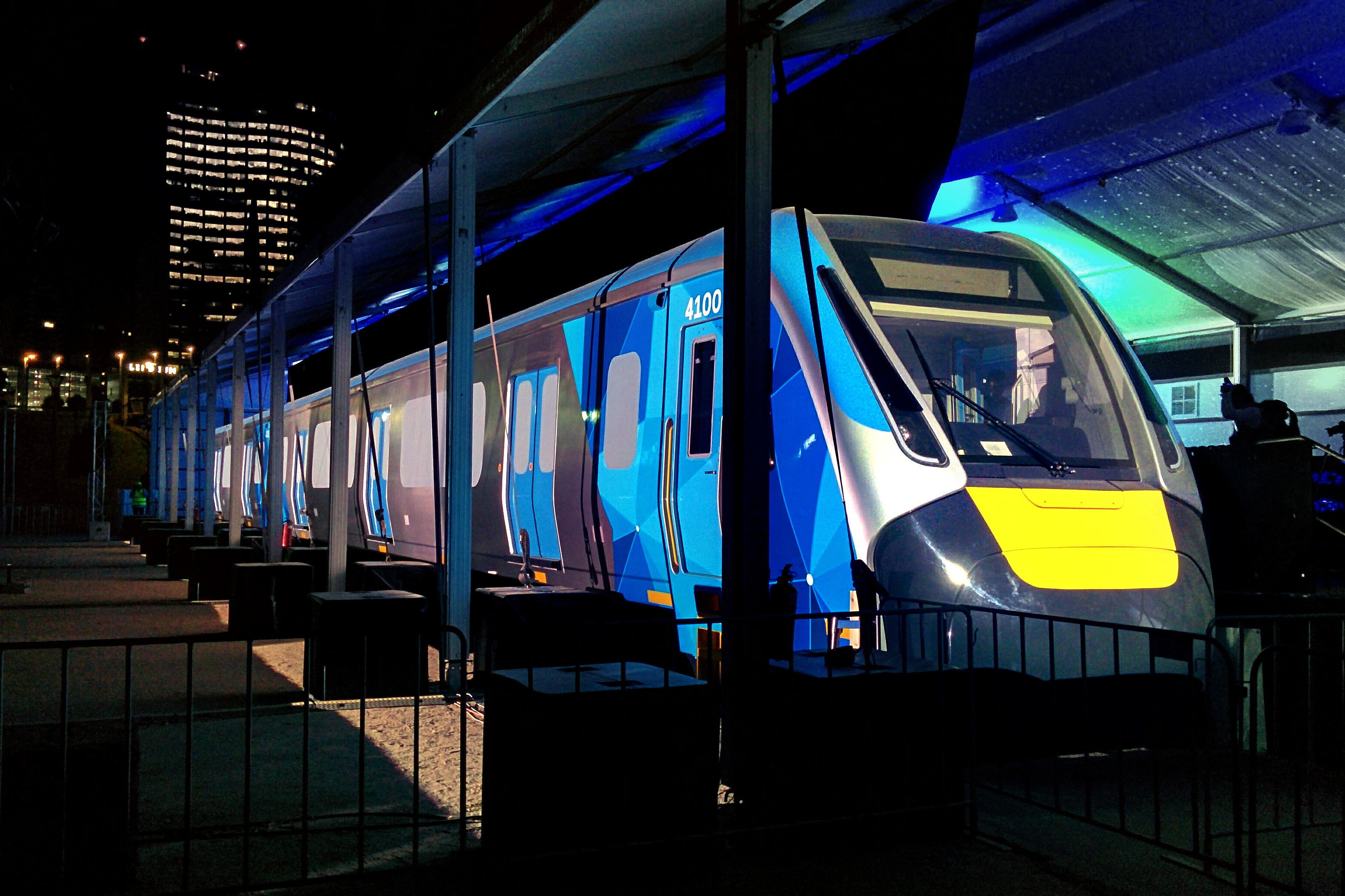 Scale model of a High Capacity Metro Trains carriage at Birrarung Marr in Melbourne.